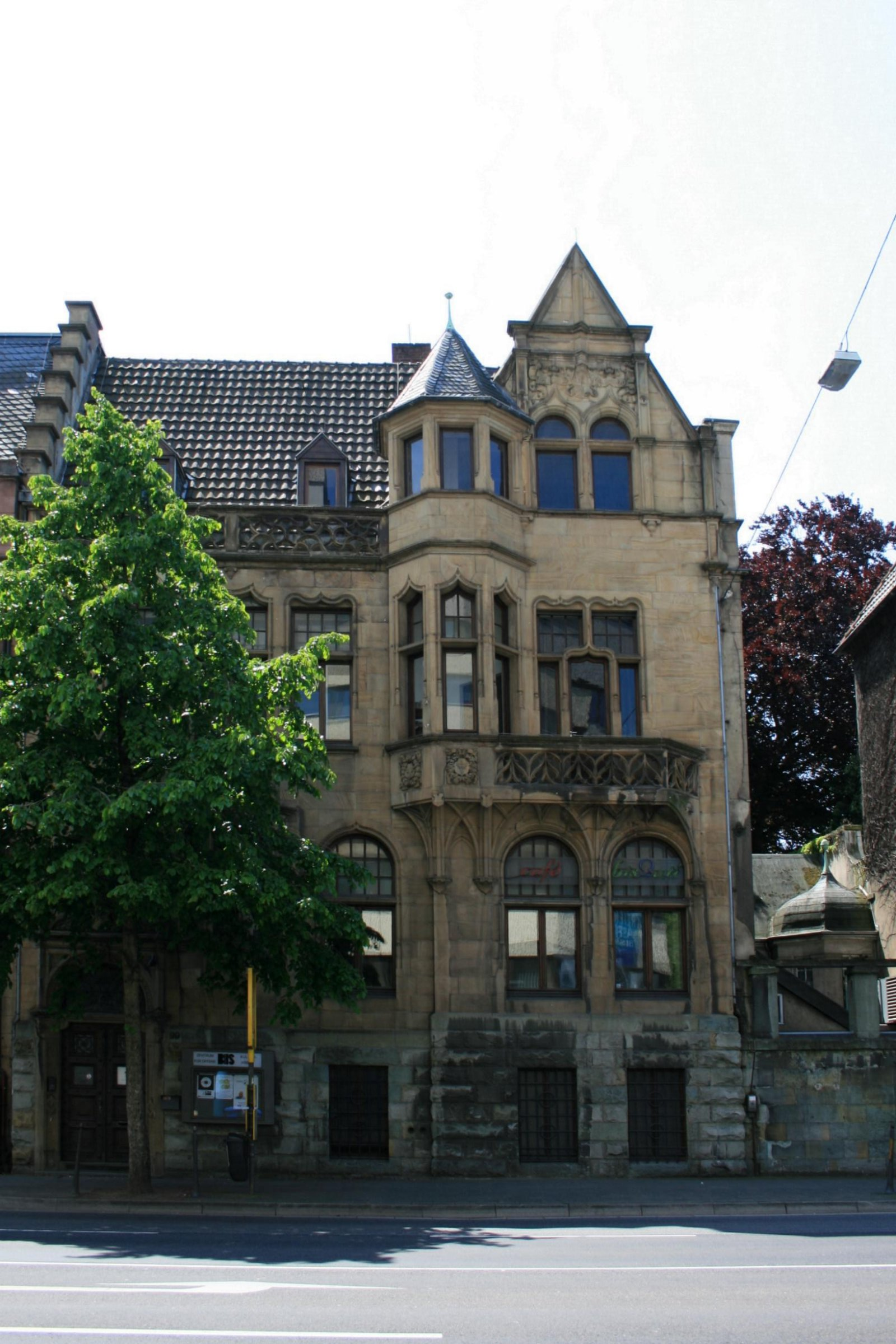 Cultural heritage monument No. B 031 in Mönchengladbach